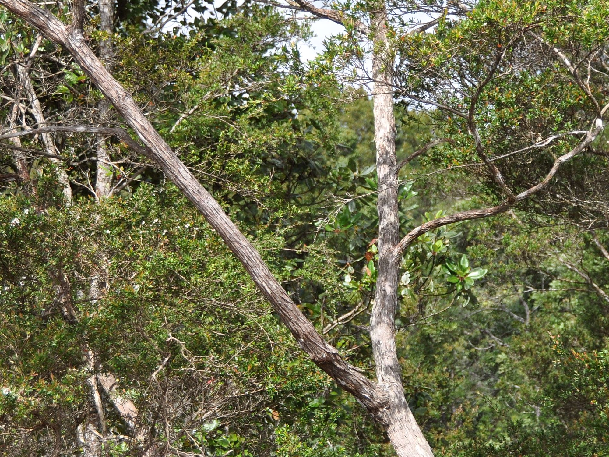 Leptospermum javanicum (syn. L. amboinense) treelet: bark and branching. North Sumatra, Indonesia. Alt. 1453 m asl.